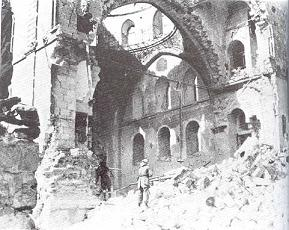 The Arab Legion in the process of destroying the Tiferet Yisrael Synagogue, Jerusalem